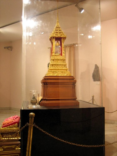 Relics of Buddha obtained from a stupa built by Emperor Asoka in 3rd century BCE, National Museum Delhi.